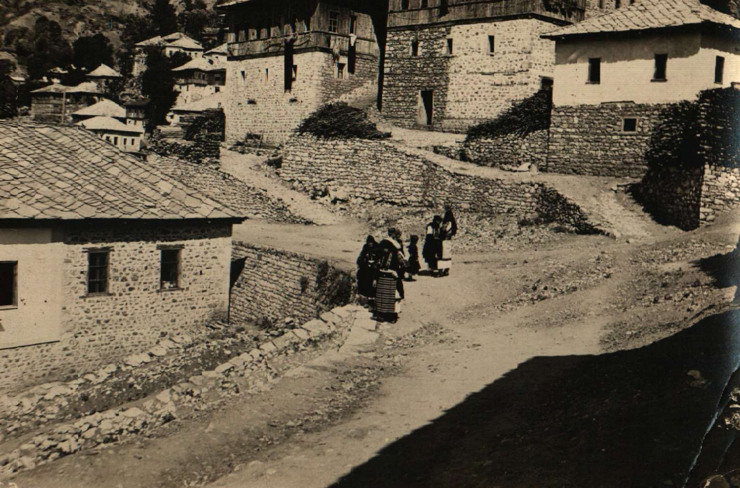 Galičnik, Macedonia